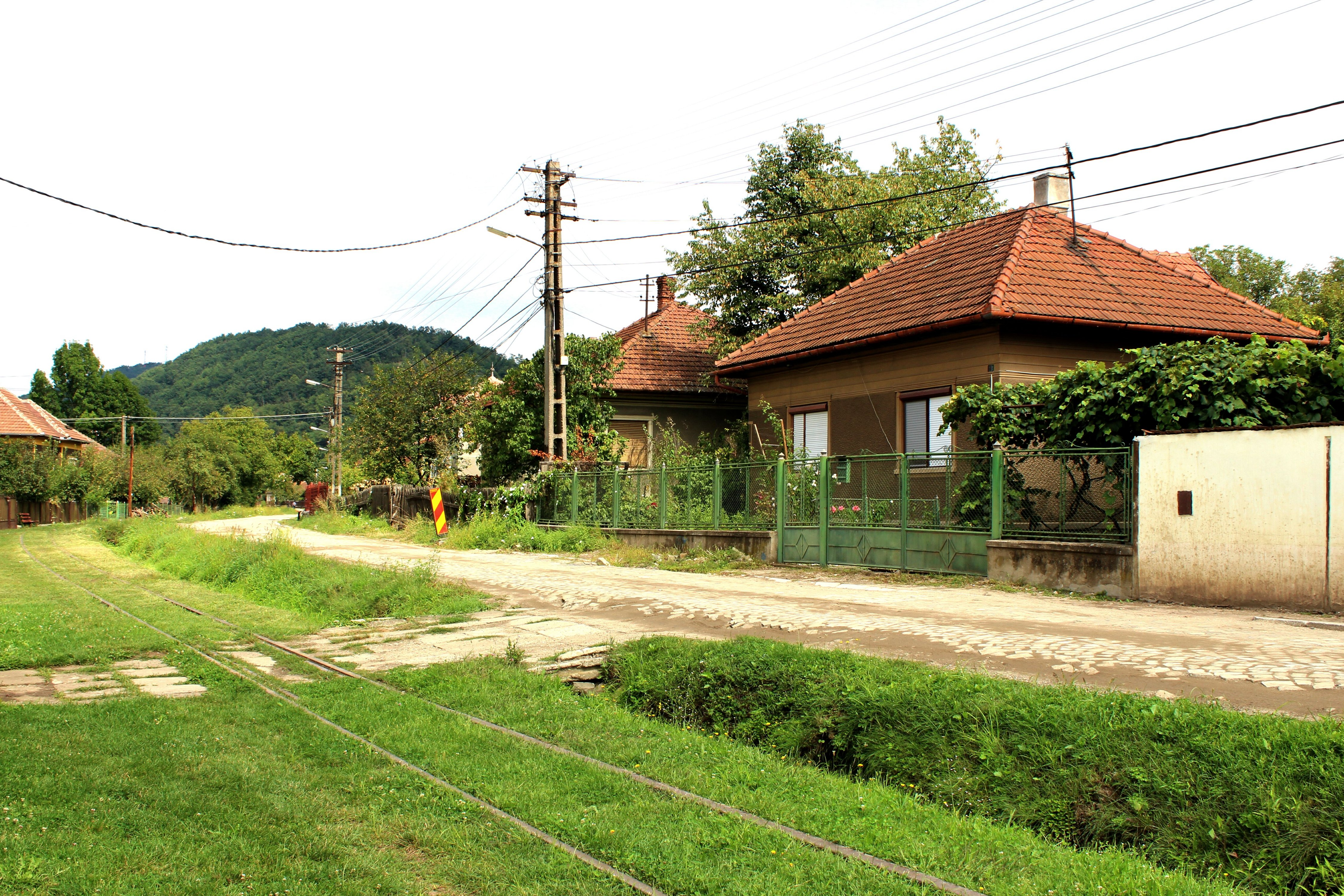 Zarandului Street no. 12-16 in Brad, Romania